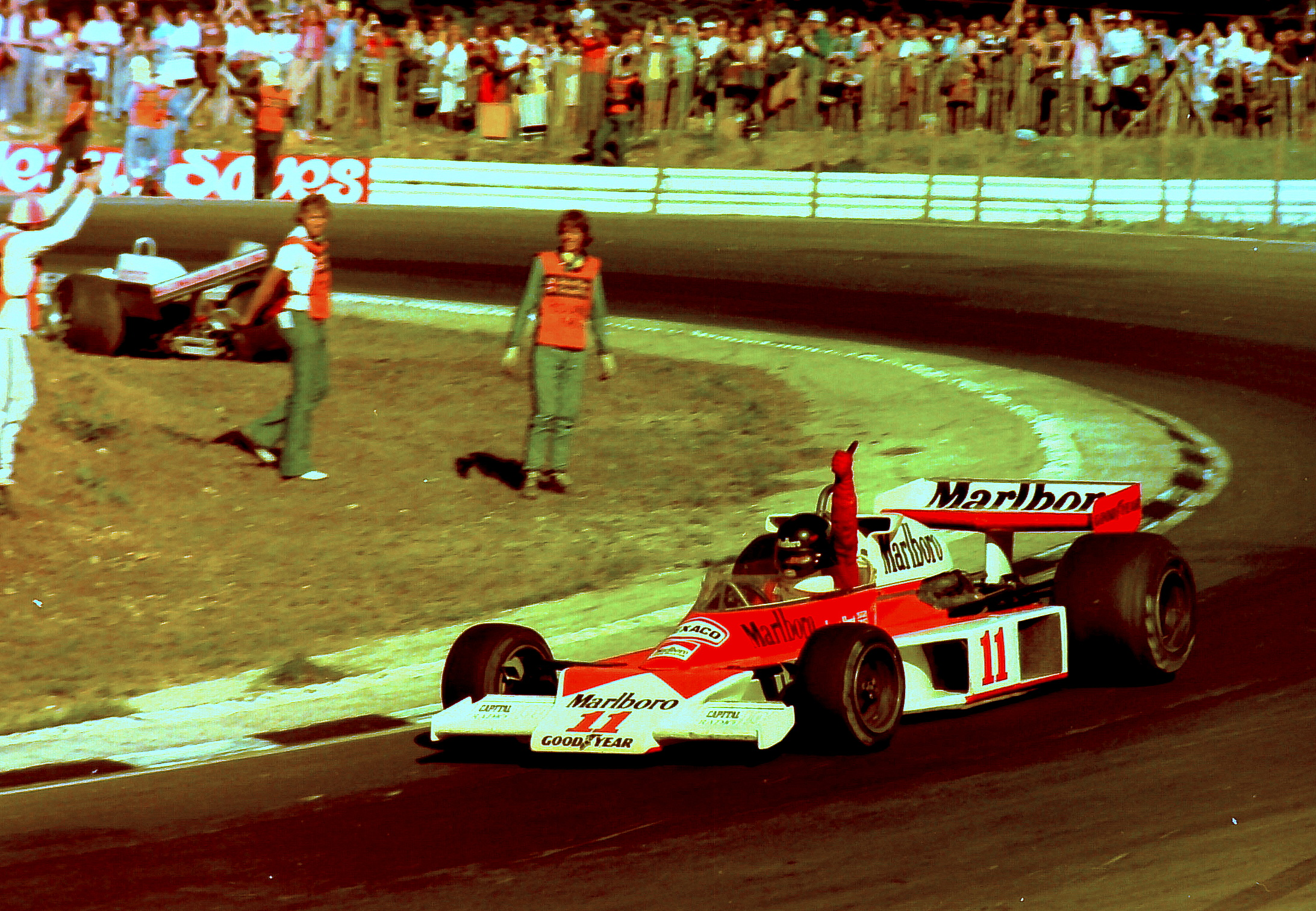 James Hunt prematurely celebrates at the 1976 British Grand Prix